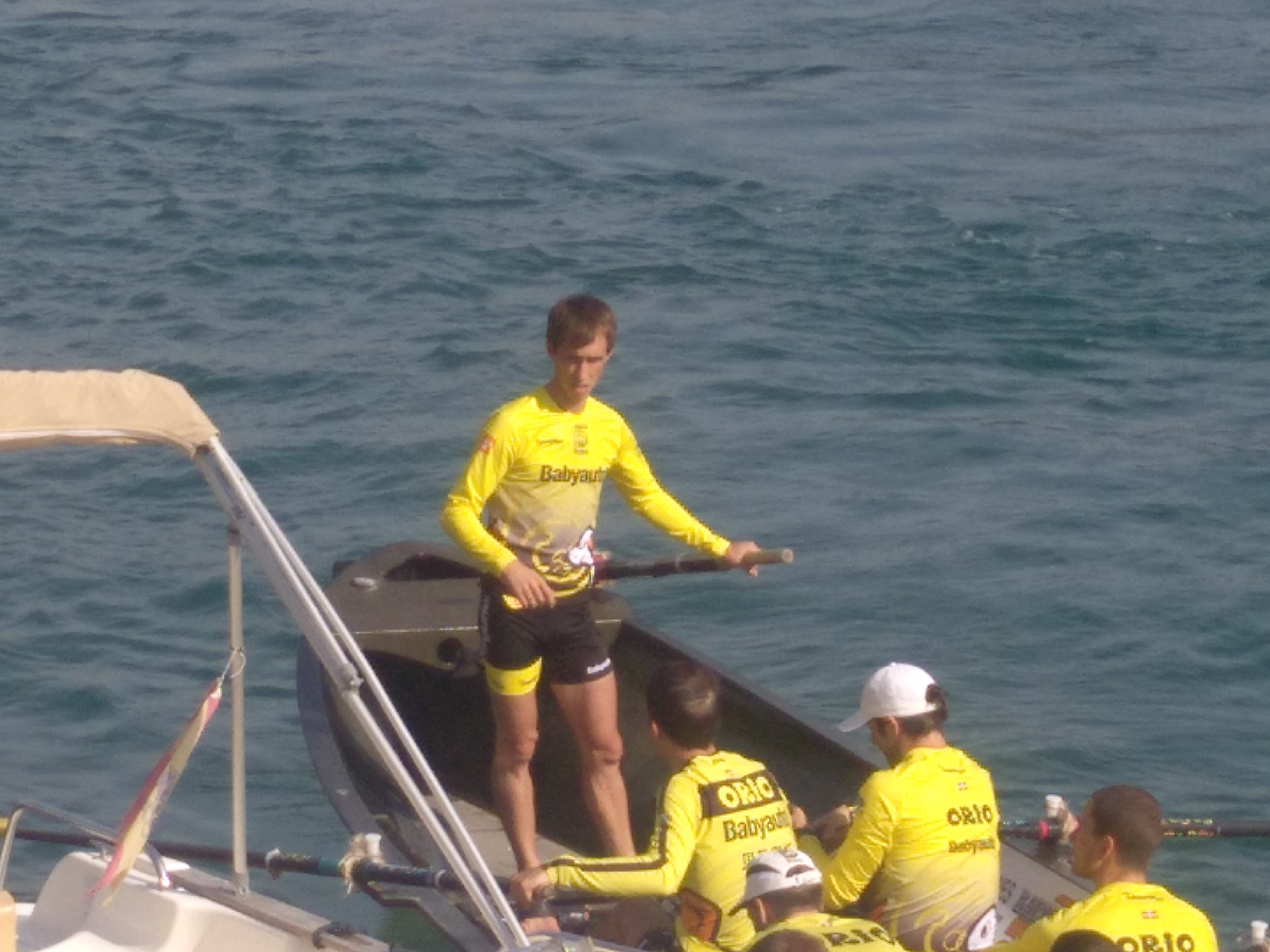 Gorka Aranberri, Flag of La Concha, 2018